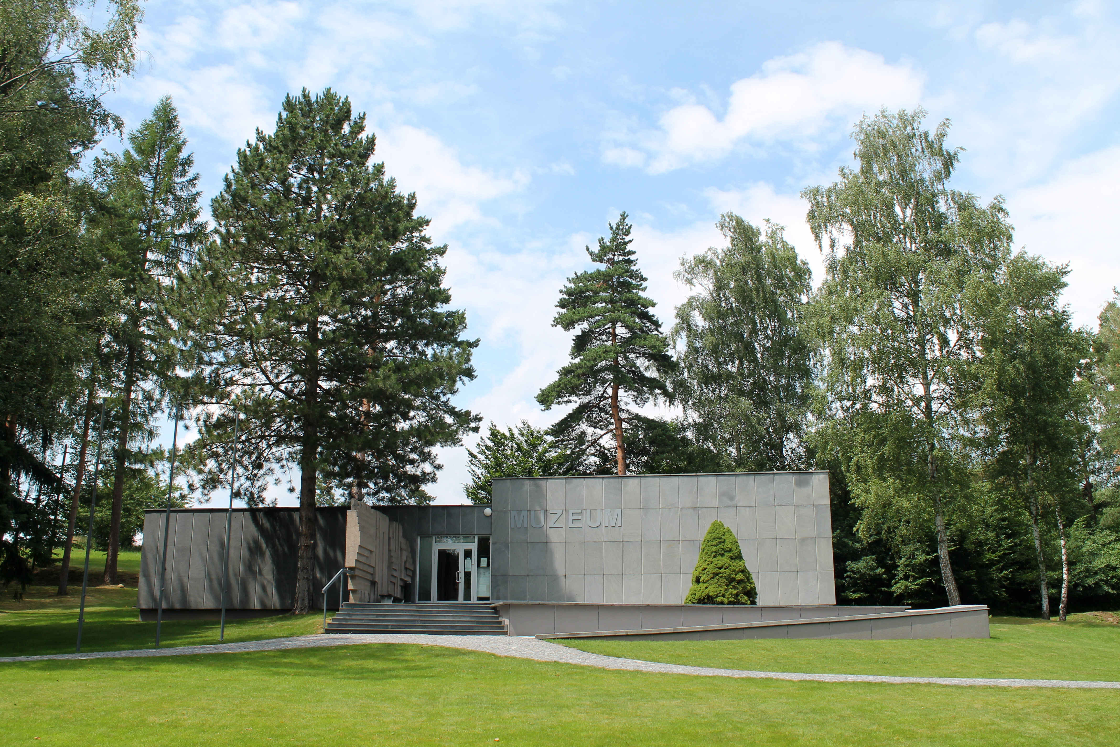 Museum, Ležáky, Dachov, Miřetice, Chrudim District, Czech Republic